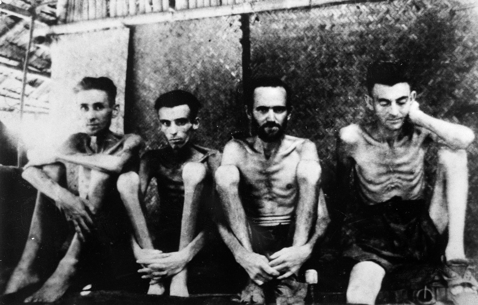 Photograph of four skeletal soldiers. Archives & Manuscripts Keywords: Cicely Delphine Williams